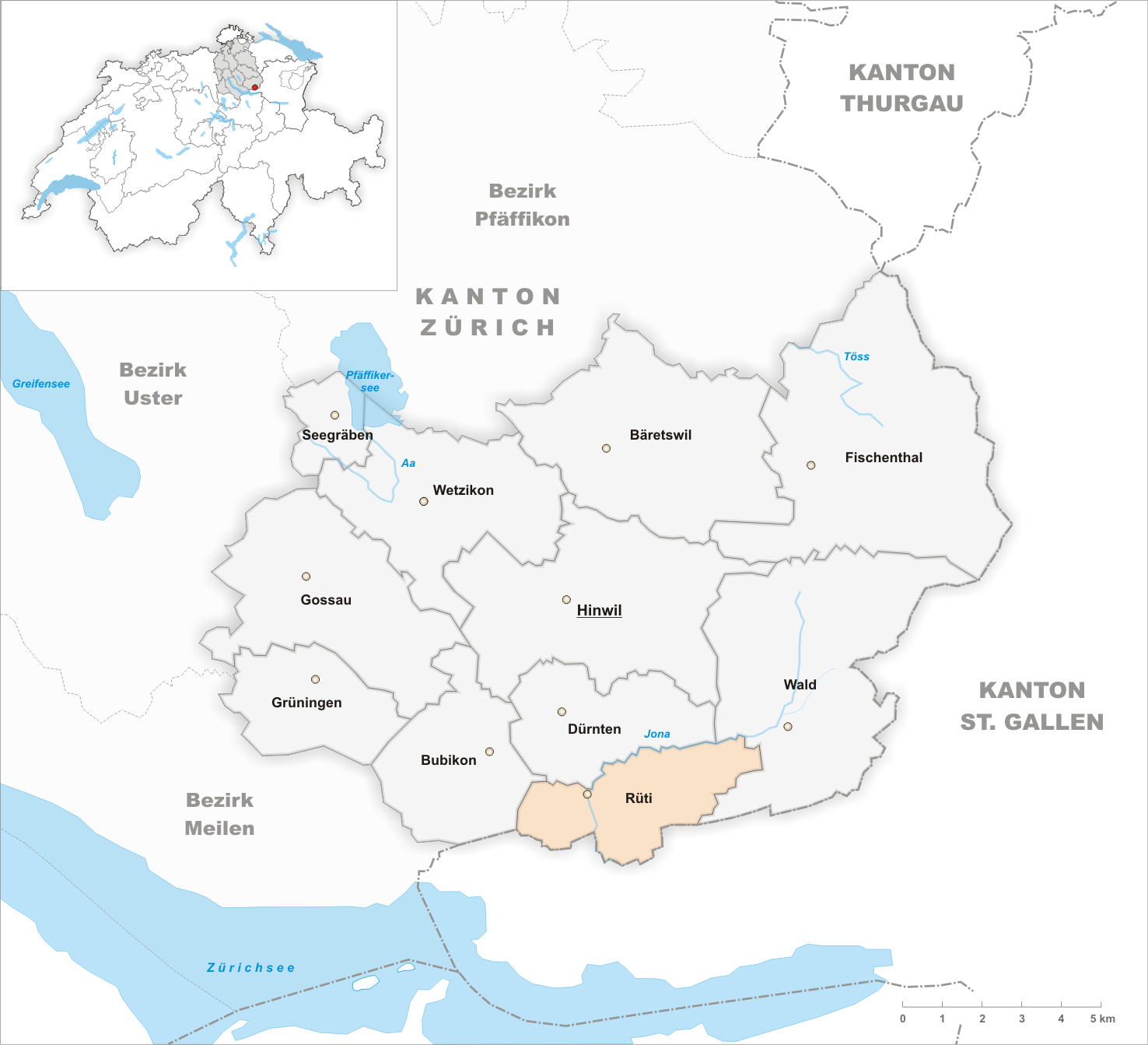 Municipality Rüti